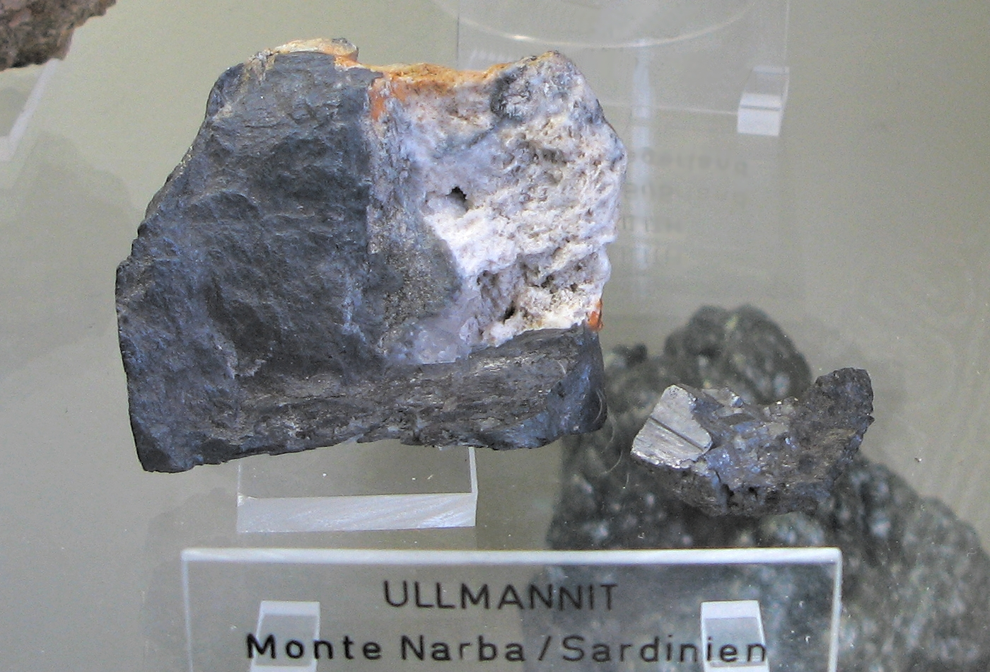 Ullmannite - Locality: Monte Narba, Sardinien - Exposed in the Mineralogical Museum, Bonn, Germany